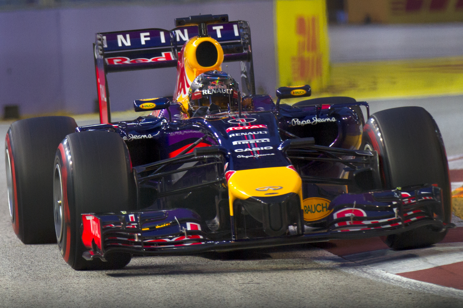 Formula One 2014 Rd.14 Singapore GP: Sebastian Vettel (Red Bull)